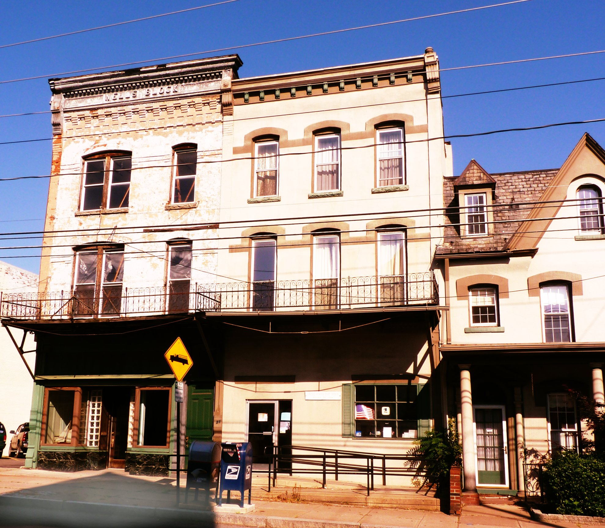 Main Street in Ashley — in Luzerne County, Pennsylvania. "There's the post office in the middle."